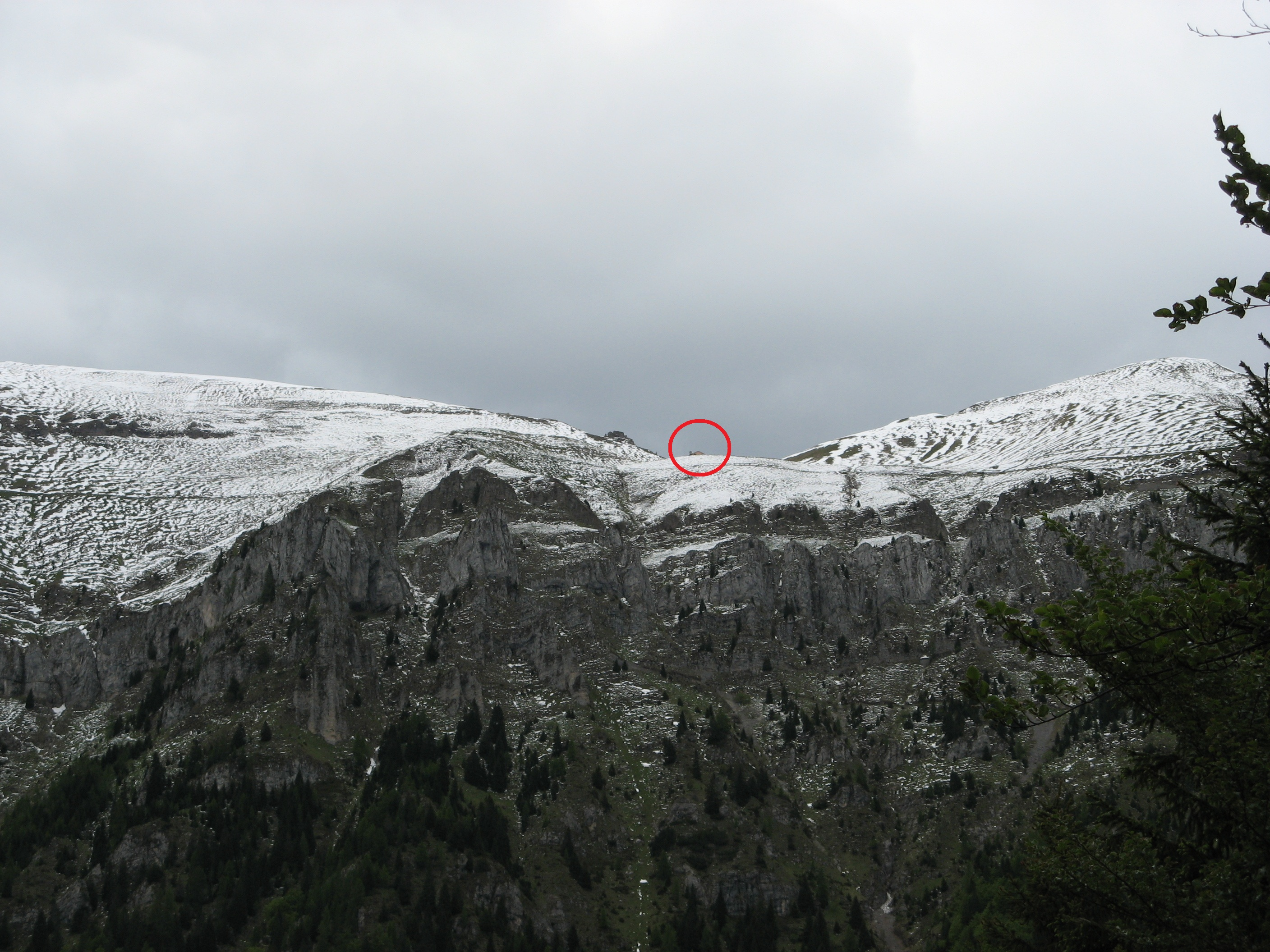 Dal Piaz Vette Feltrine